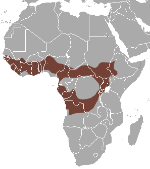 Peter's Dwarf Epauletted Fruit Bat (Micropteropus pusillus) range